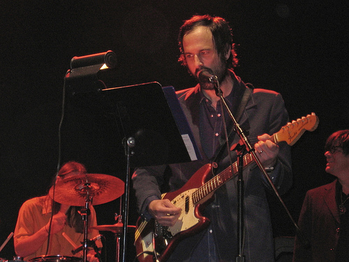 Silver Jews performing at Webster Hall on March 17, 2006